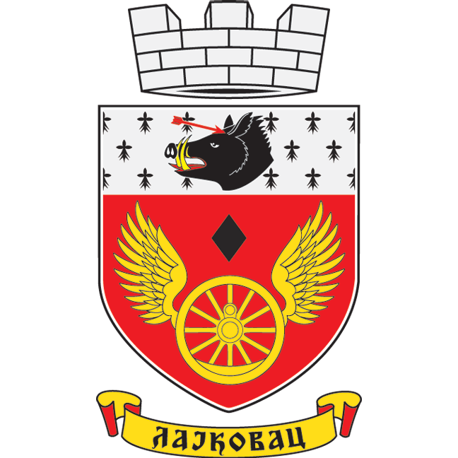 Coat of arms of Lajkovac (middle)